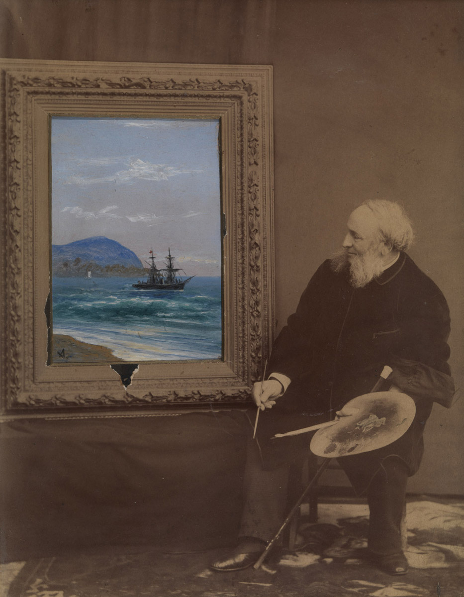 AIVAZOVSKY, IVAN Self-Portrait with Seascape, Photocollage with oil on card, 26.5 by 19.5 cm. 8,000-12,000 pounds